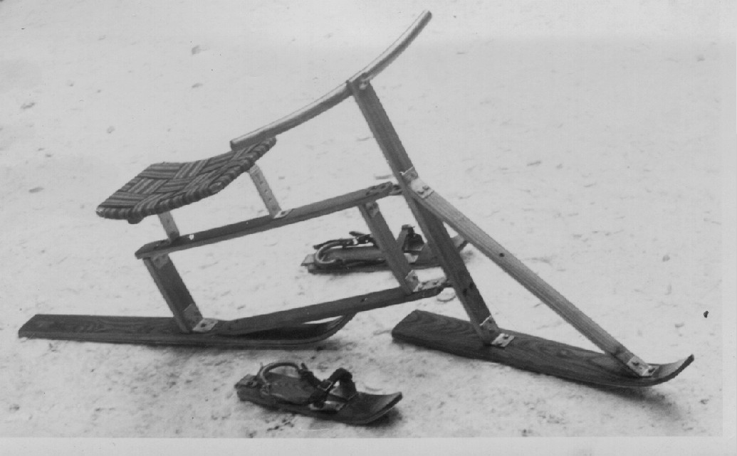 First SITSKI (Skibob, Skibike, Snowbike) March 10 1949